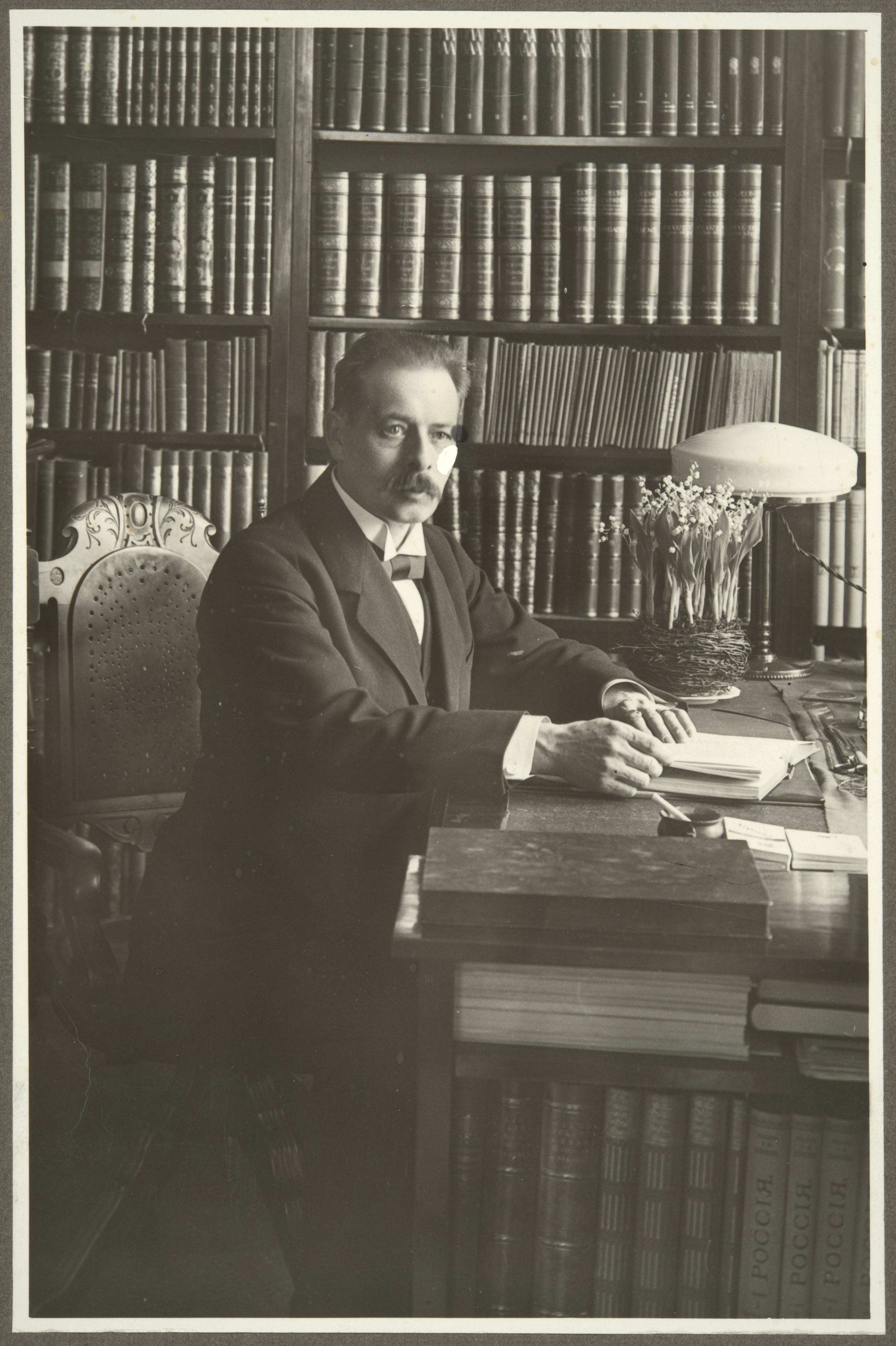 Photograph of the Finnish historian Uno Lehtonen (1870–1927).